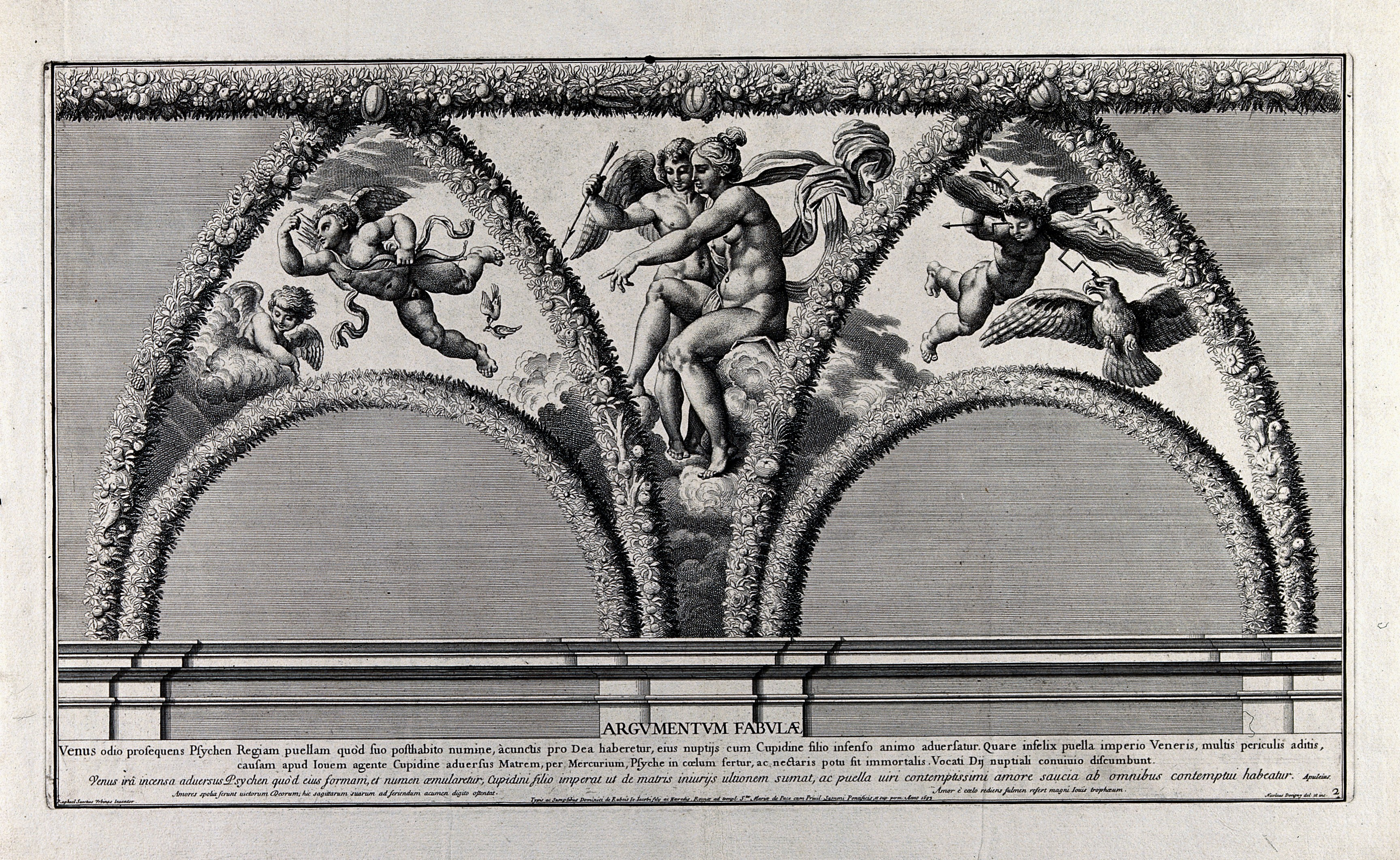 The story of Cupid and Psyche: Venus sending Cupid to Psyche. Engraving by N. Dorigny, 1693, after Raphael. Iconographic Collections Keywords: Raphael; Nicolas Dorigny; Venus